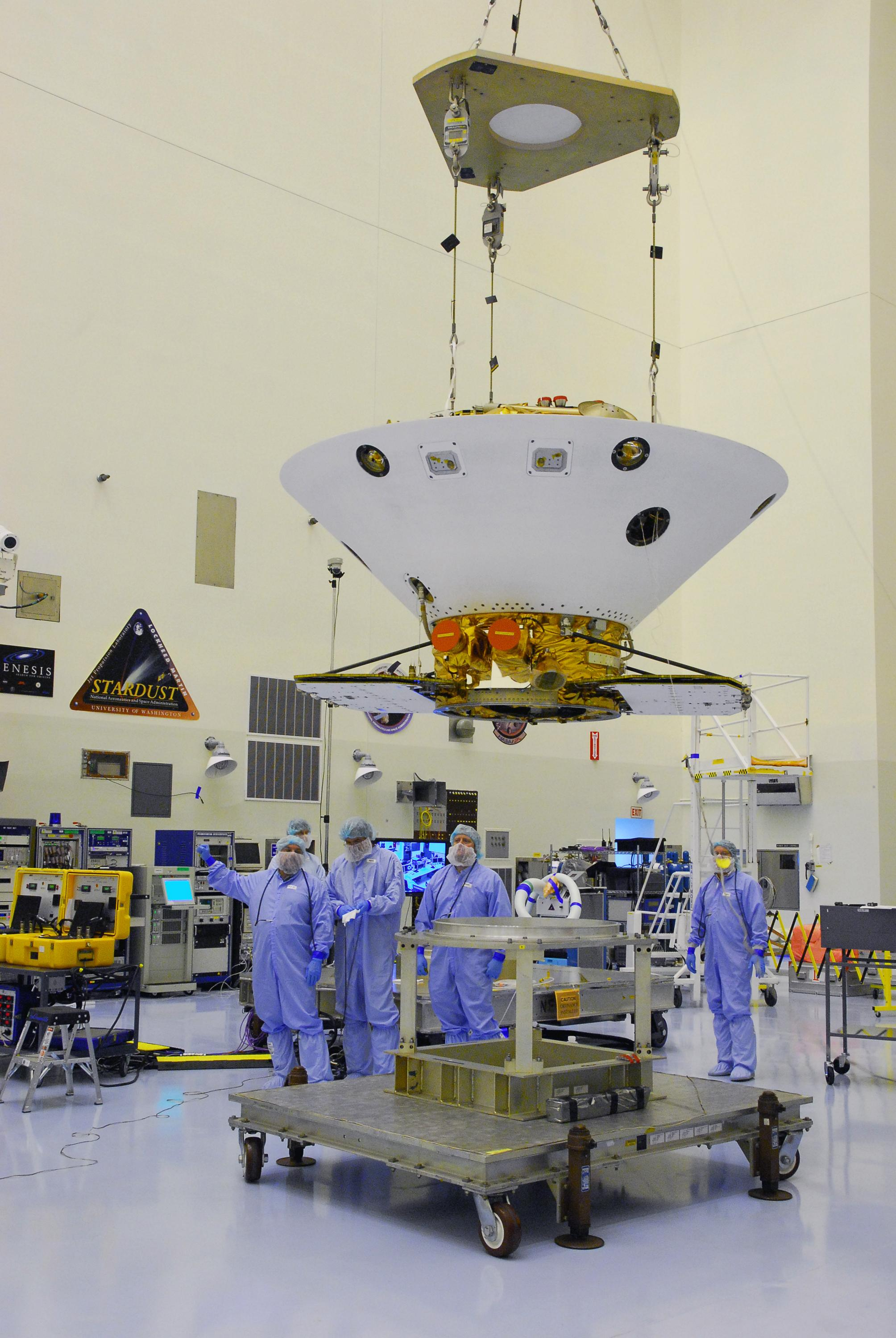 An overhad crane lifted Phoenix to a rotation stand for center of gravity and wight determination.